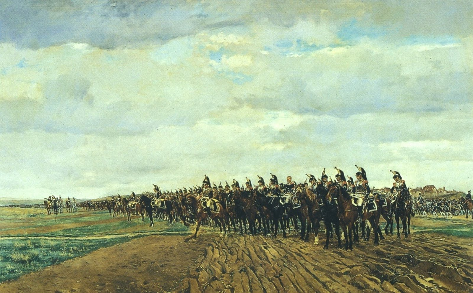 "Cuirassiers in 1805, before the charge" by Ernest Meissonier.